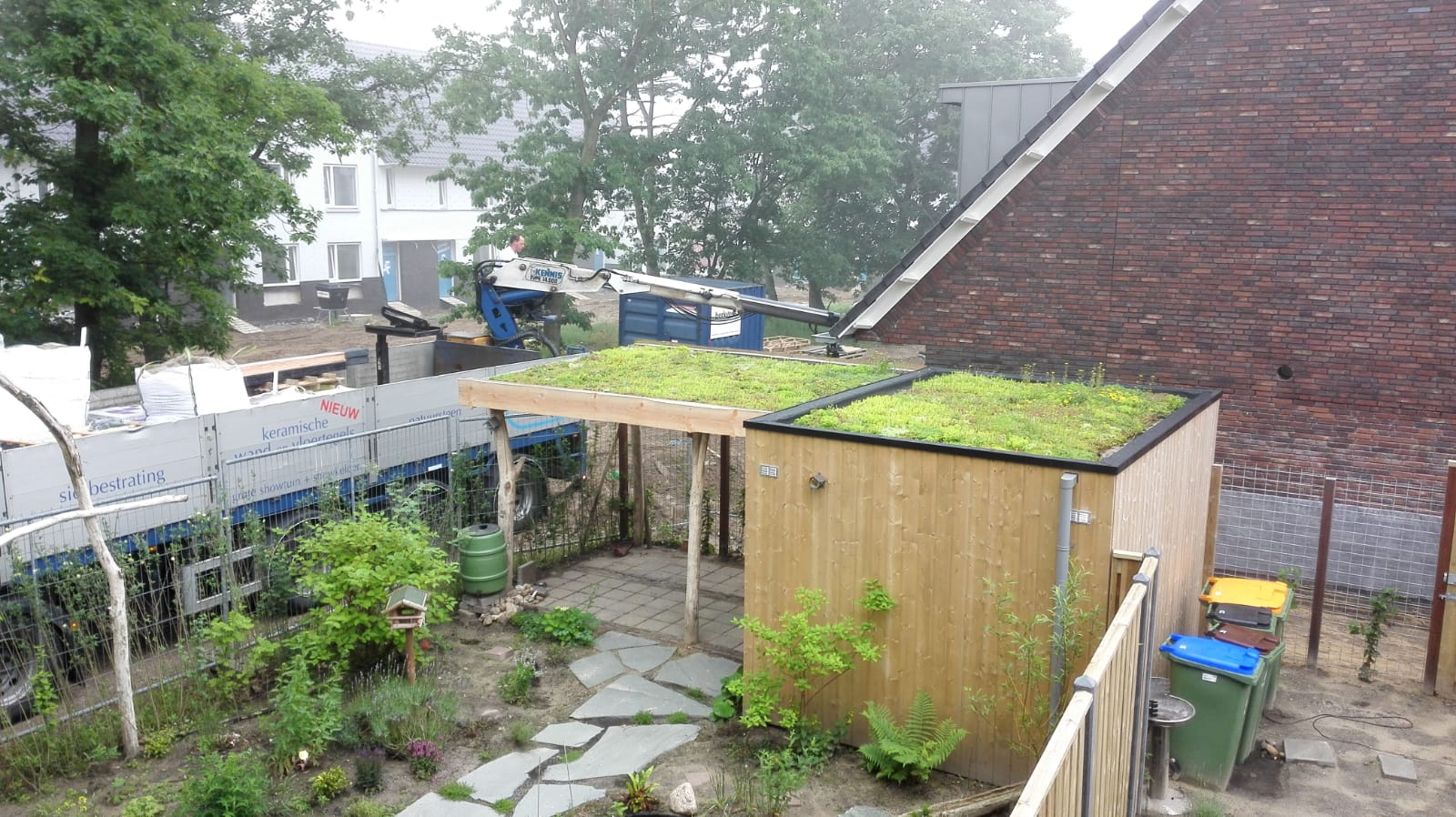 Green roof on shed and shelter in Ede (NL)